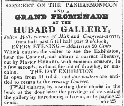 Newspaper item related to Hubard Gallery, Julien Hall, Boston